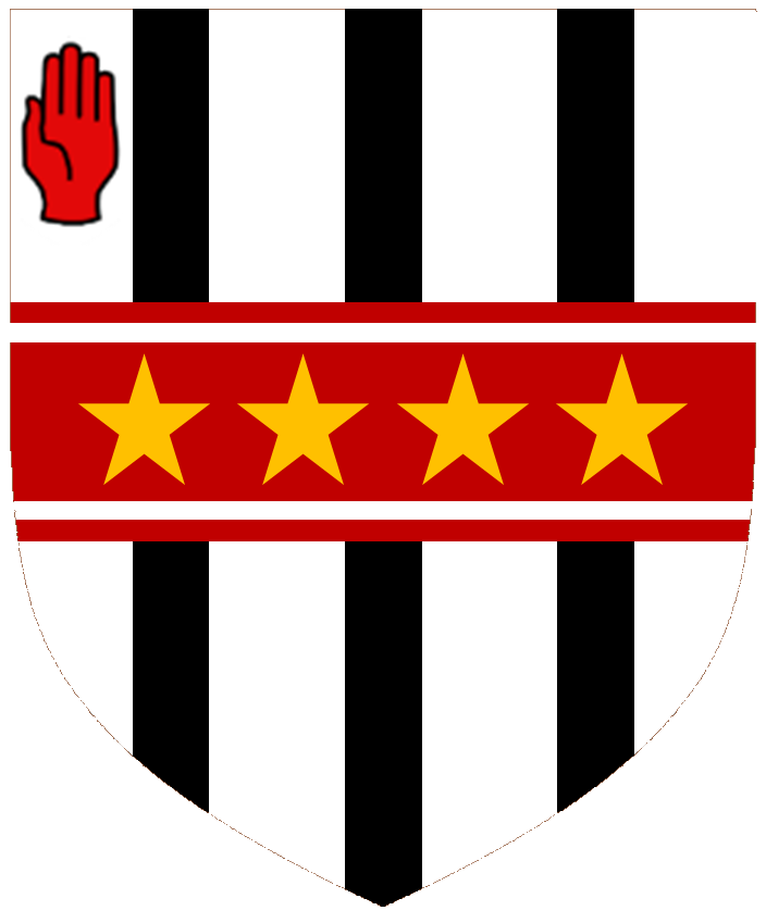 Shield of arms of the Jaffray baronets